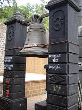 Bell at the Bhimashankar Temple, Maharashtra, India